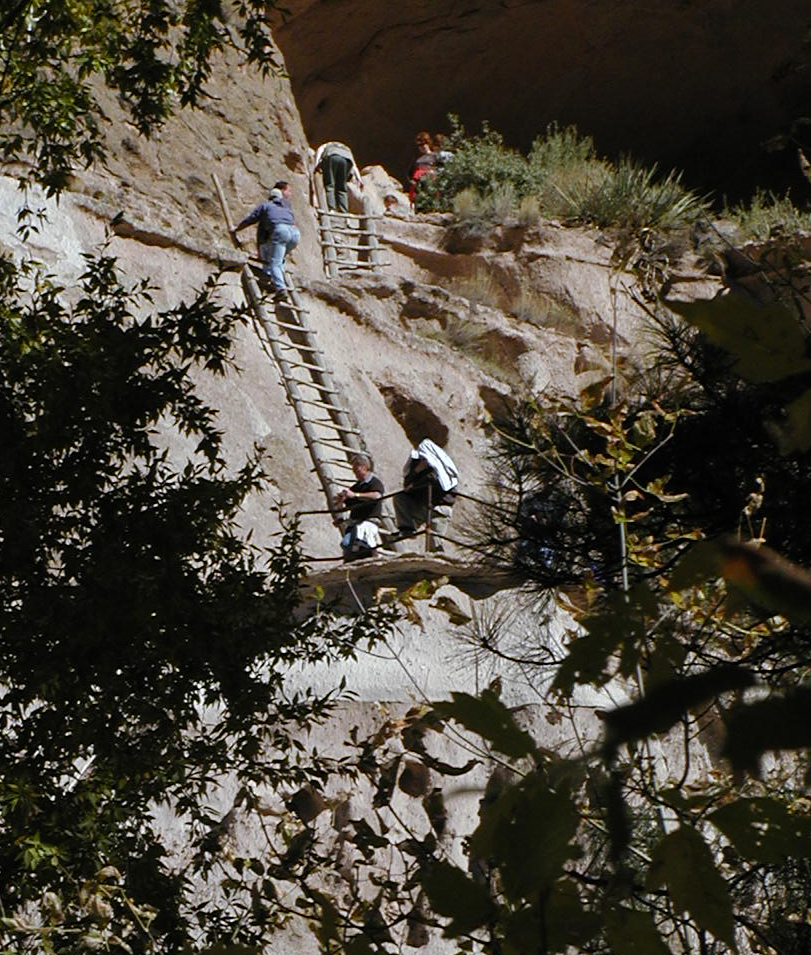 Alcove House is reached only by climbing long wooden laddres. It is in the Bandelier National Monument.